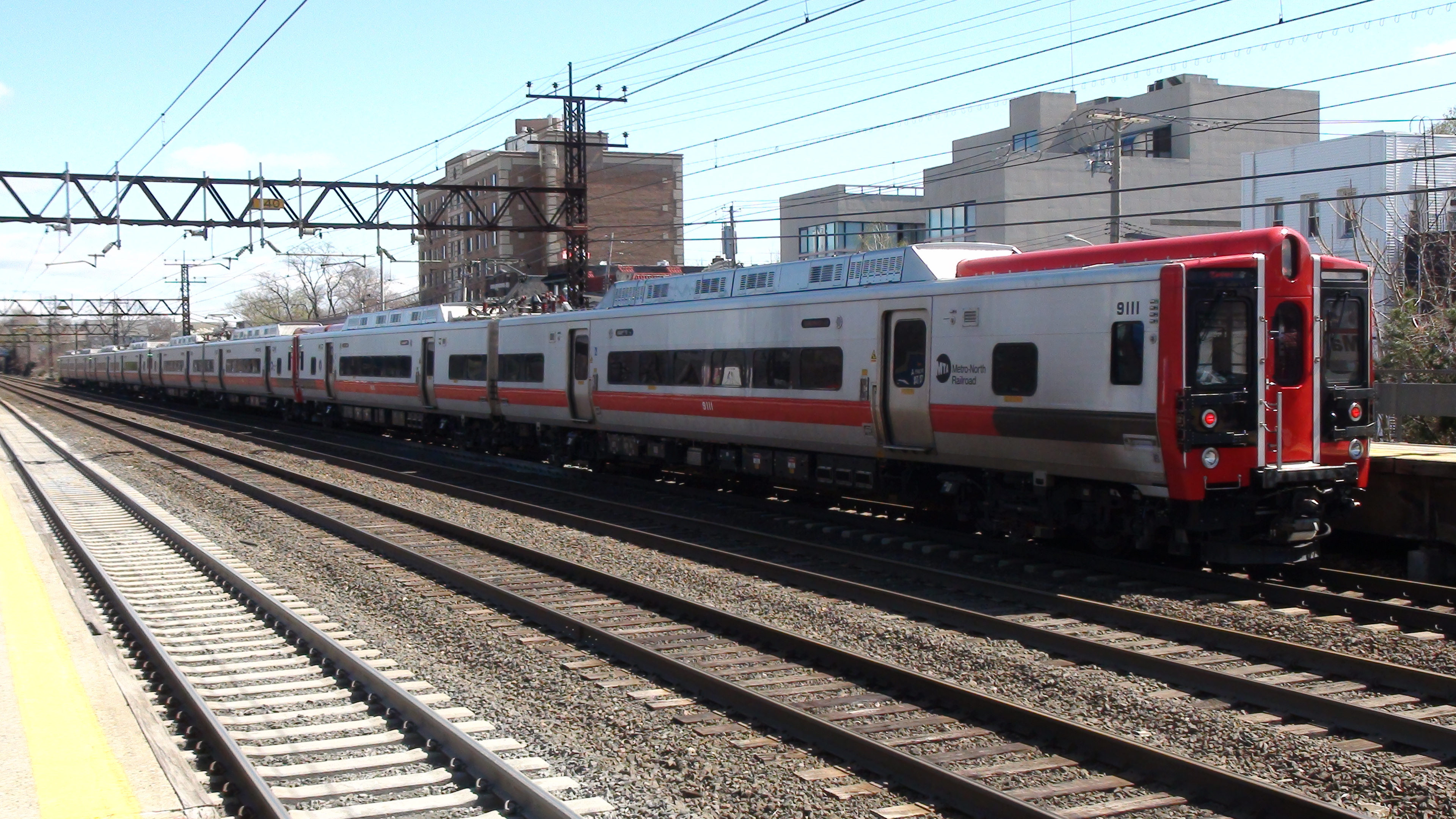 M8 (Rail-car) arriving at Mamaroneck.